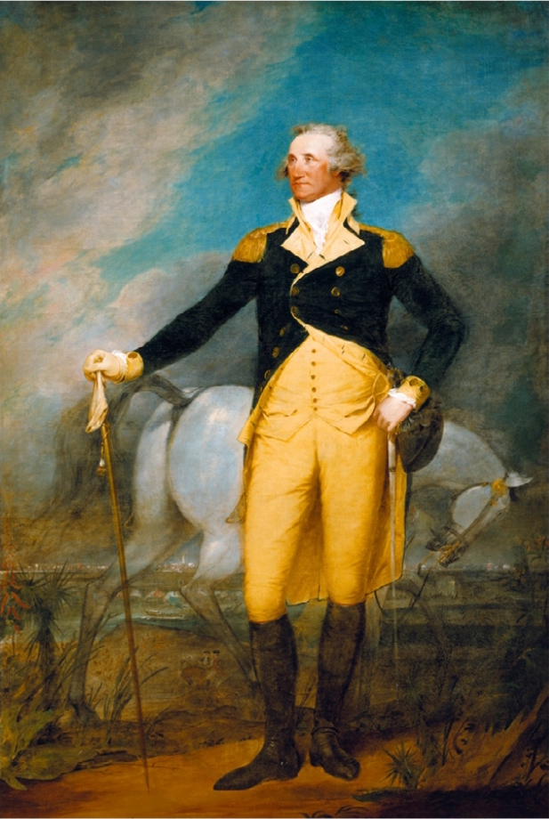 Washington at the City of Charleston, reworking of General George Washington at Trenton.